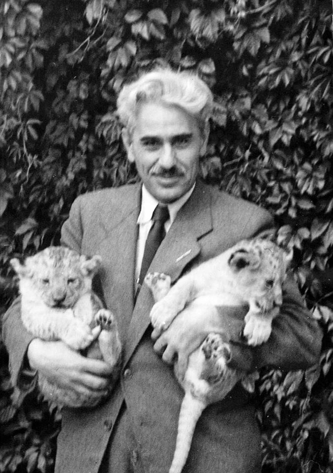 Bulgarian zoologist Pavel Patev (1889-1950) as a director of the Sofia Zoo in 939